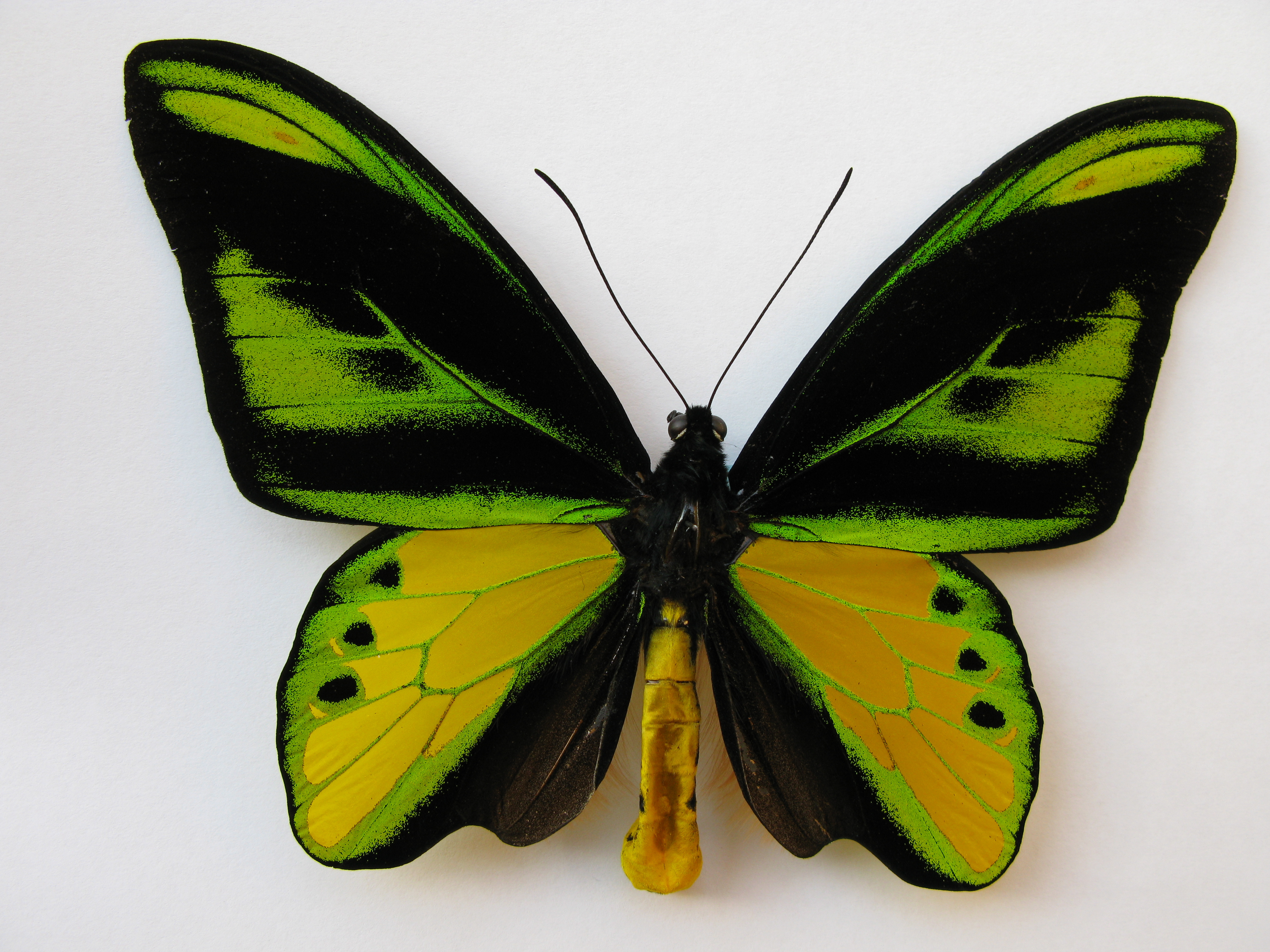 Ornithoptera chimaera charybdis Papua New Guinea, W.Irian, Mapia. 02/2012